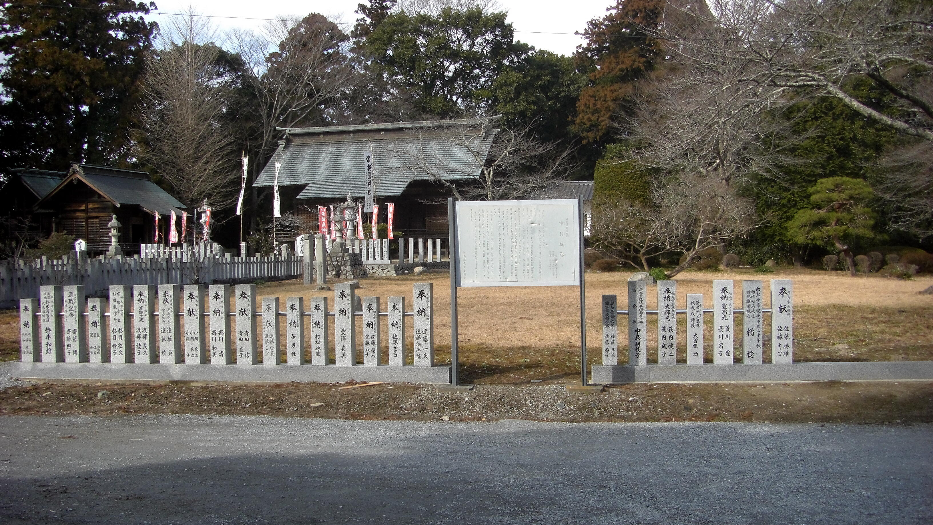 Site of the Soma Nakamura Castle